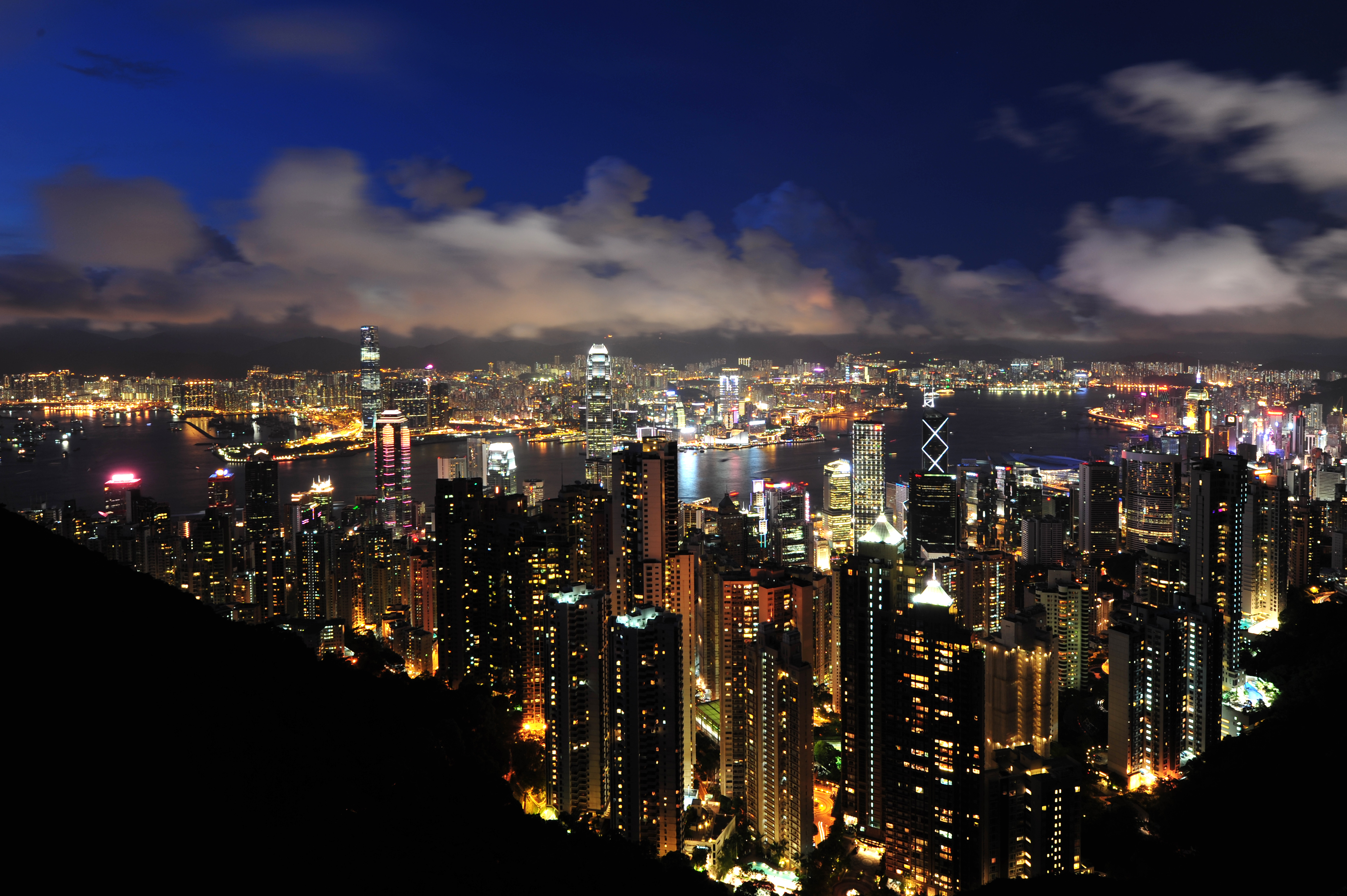 Victoria Peak panorama Hong Kong Kowloon at night 2011